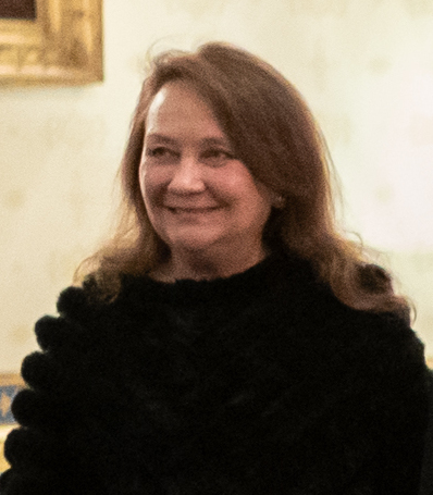 President Donald J. Trump and First Lady Melania Trump pose for a portrait with Texas Governor Greg Abbott and his wife Mrs. Cecilia Abbott in the Blue Room of the White House Sunday, Feb. 9, 2020, prior to attending the Governors’ Ball. (Official White House Photo by Andrea Hanks)